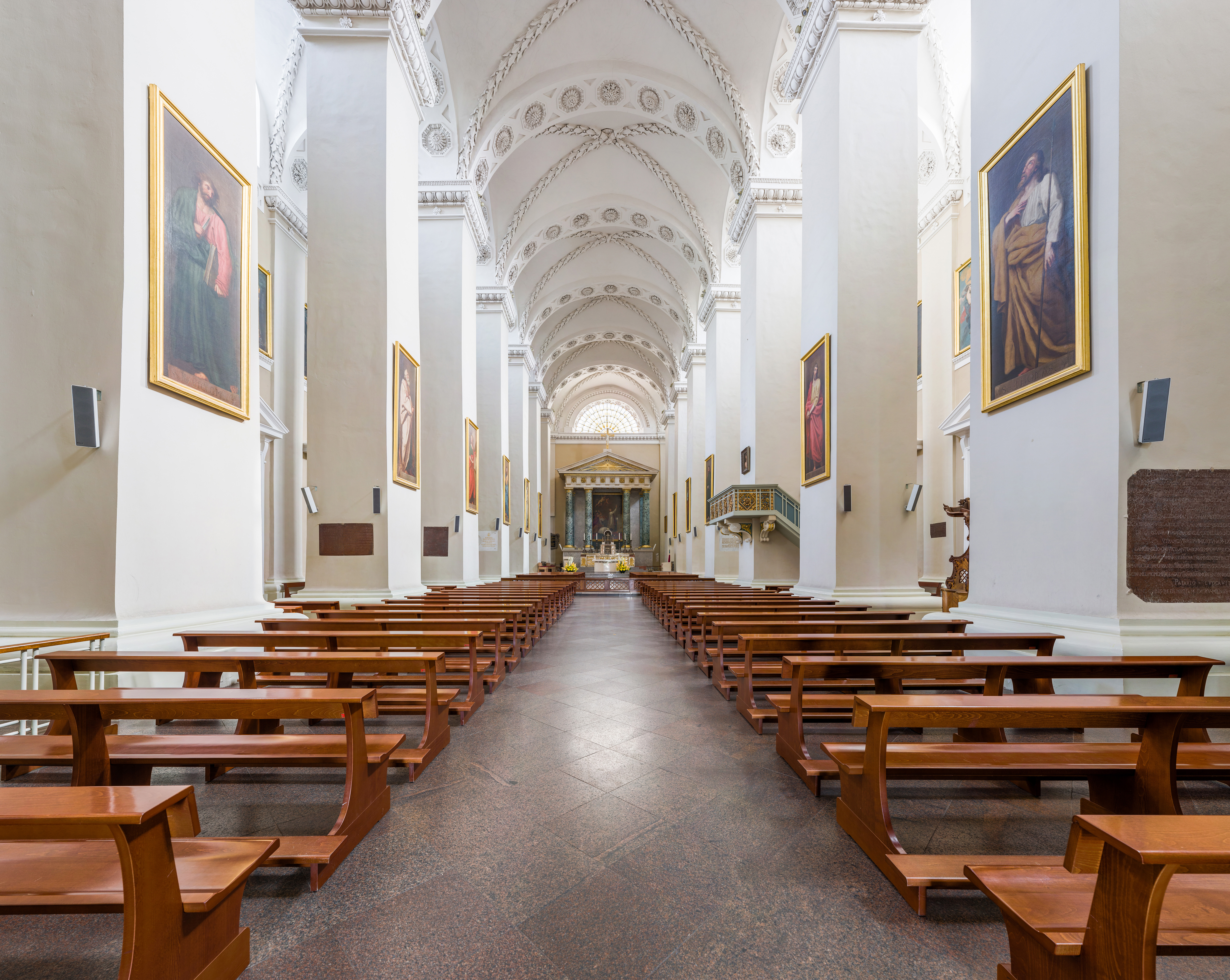 The interior of Vilnius Cathedral, Lithuania.